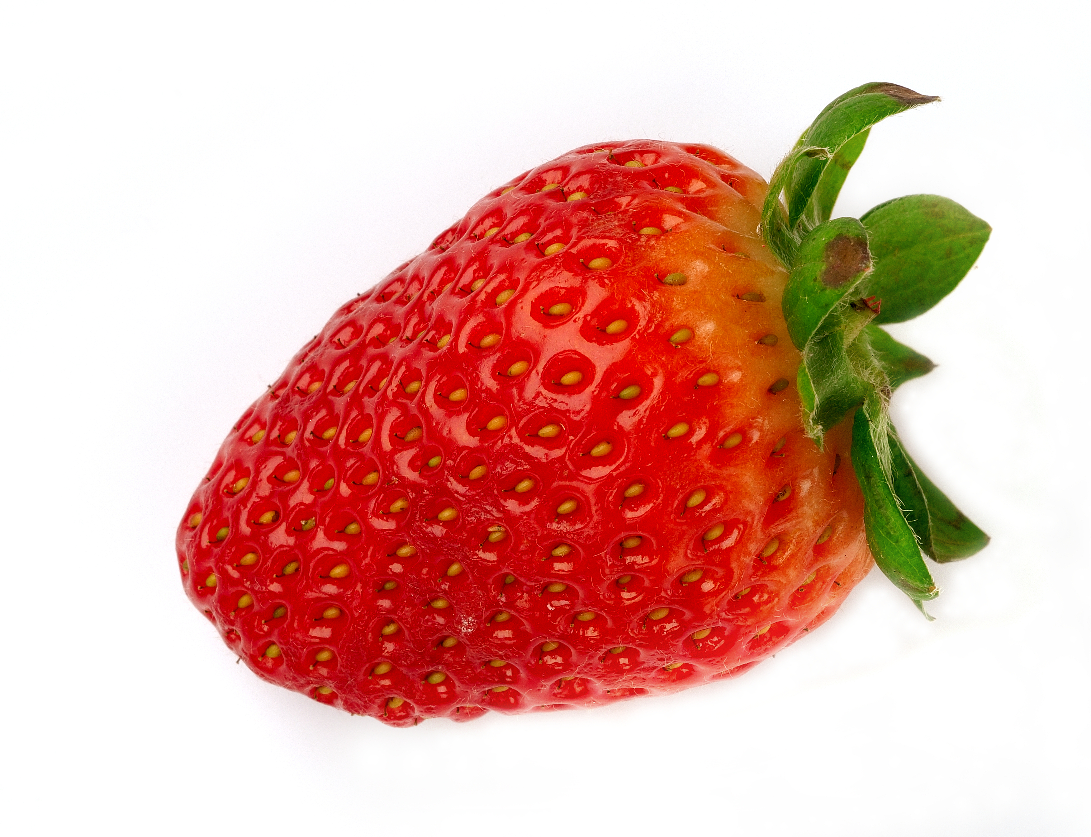 Garden Strawberry "Fragaria".